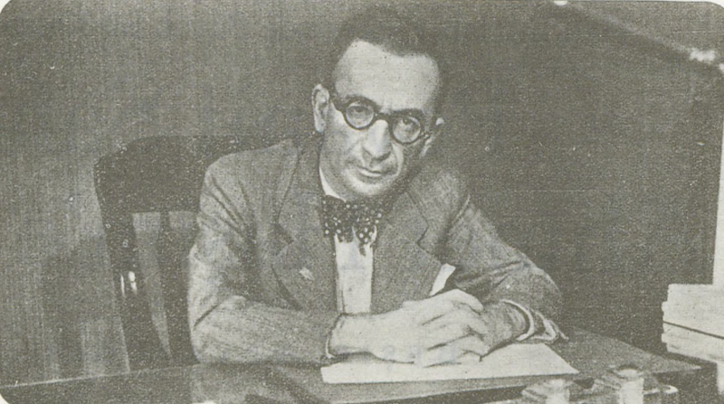 A photo of Peyami Safa is working in Yedigün Magazine (1936)